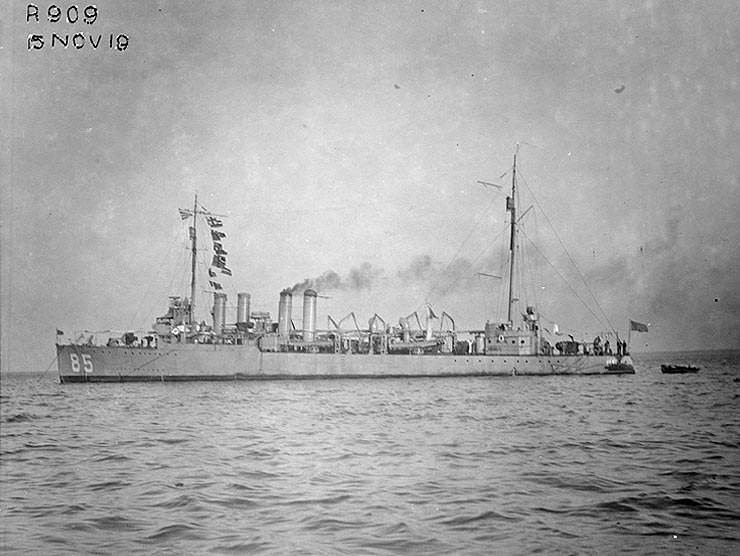 USS Colhoun (DD-85) U.S. Naval Historical Center Photograph. Original caption: “Photo # NH 55255 USS Colhoun, 15 November 1919” — removed caption